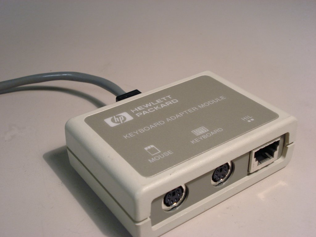 Photo taken by me and released into public domain.